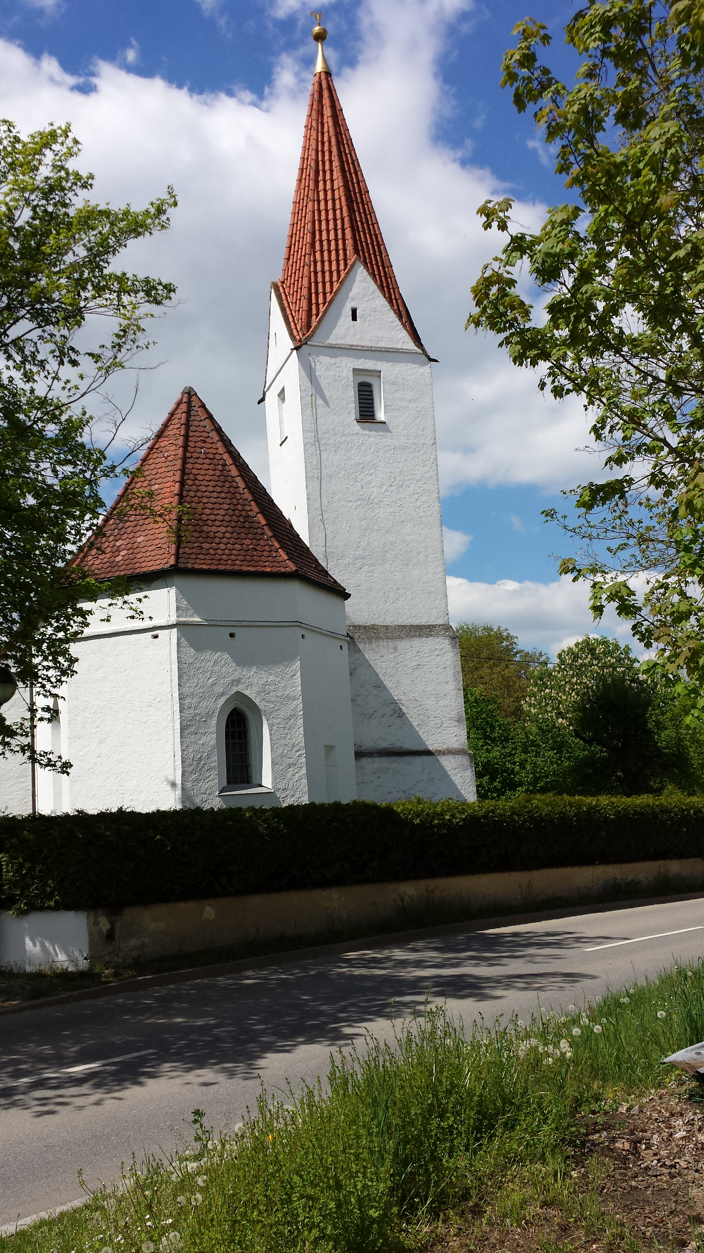 Church St. Georg in Gelbersdorf, Gammelsdorf, Upper Bavaria.